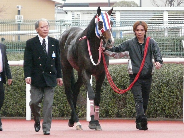 Wonder-Acute20101211